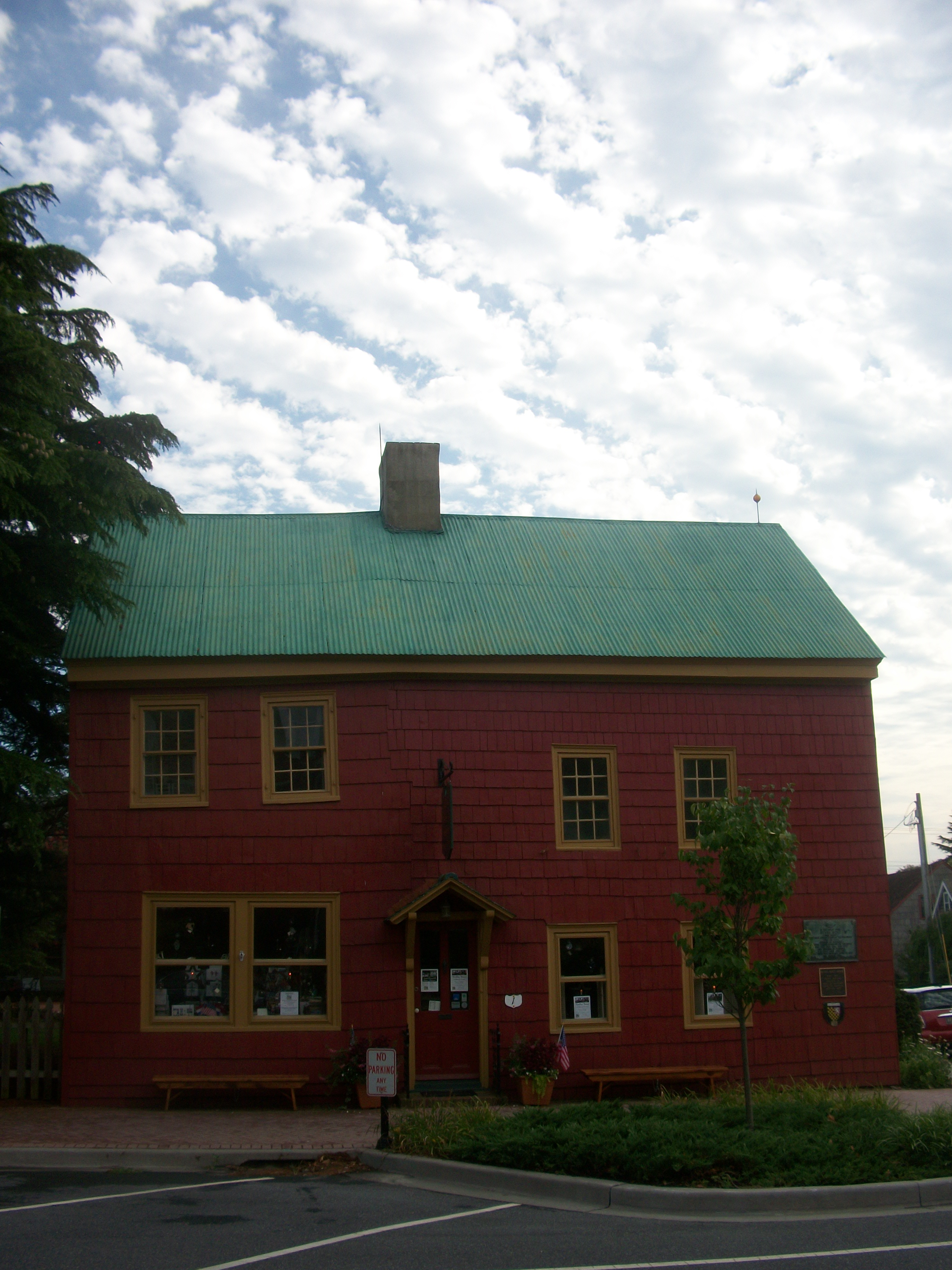 Taken July 21, 2010.